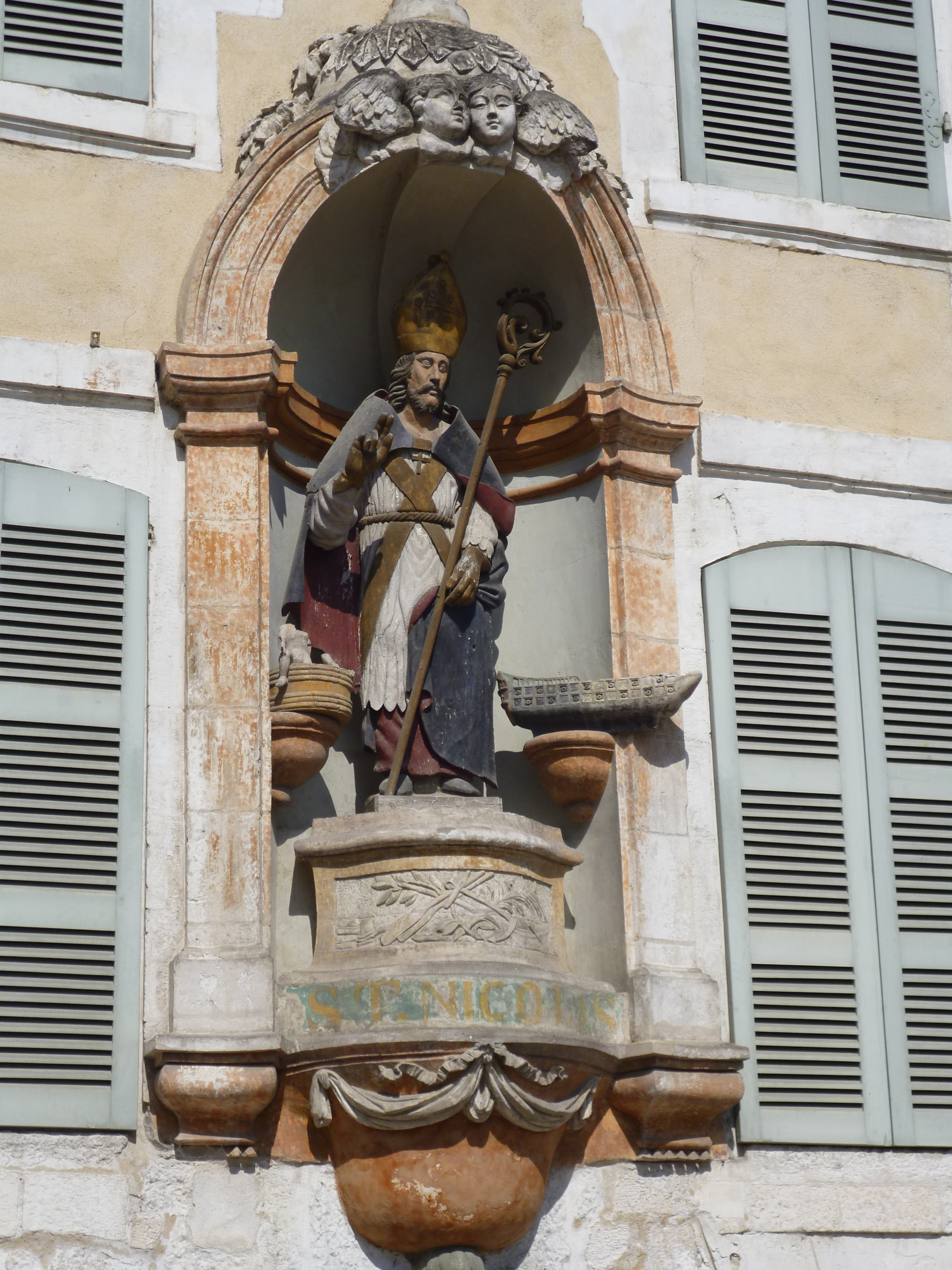 Saint-Nicolas Patron Saint des Flotteurs Place St-Nicolas Auxerre France